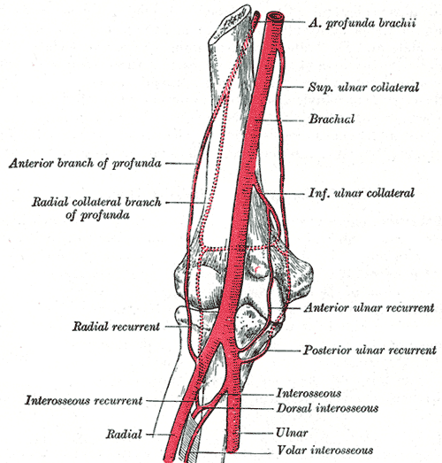 brachial artery and its branches